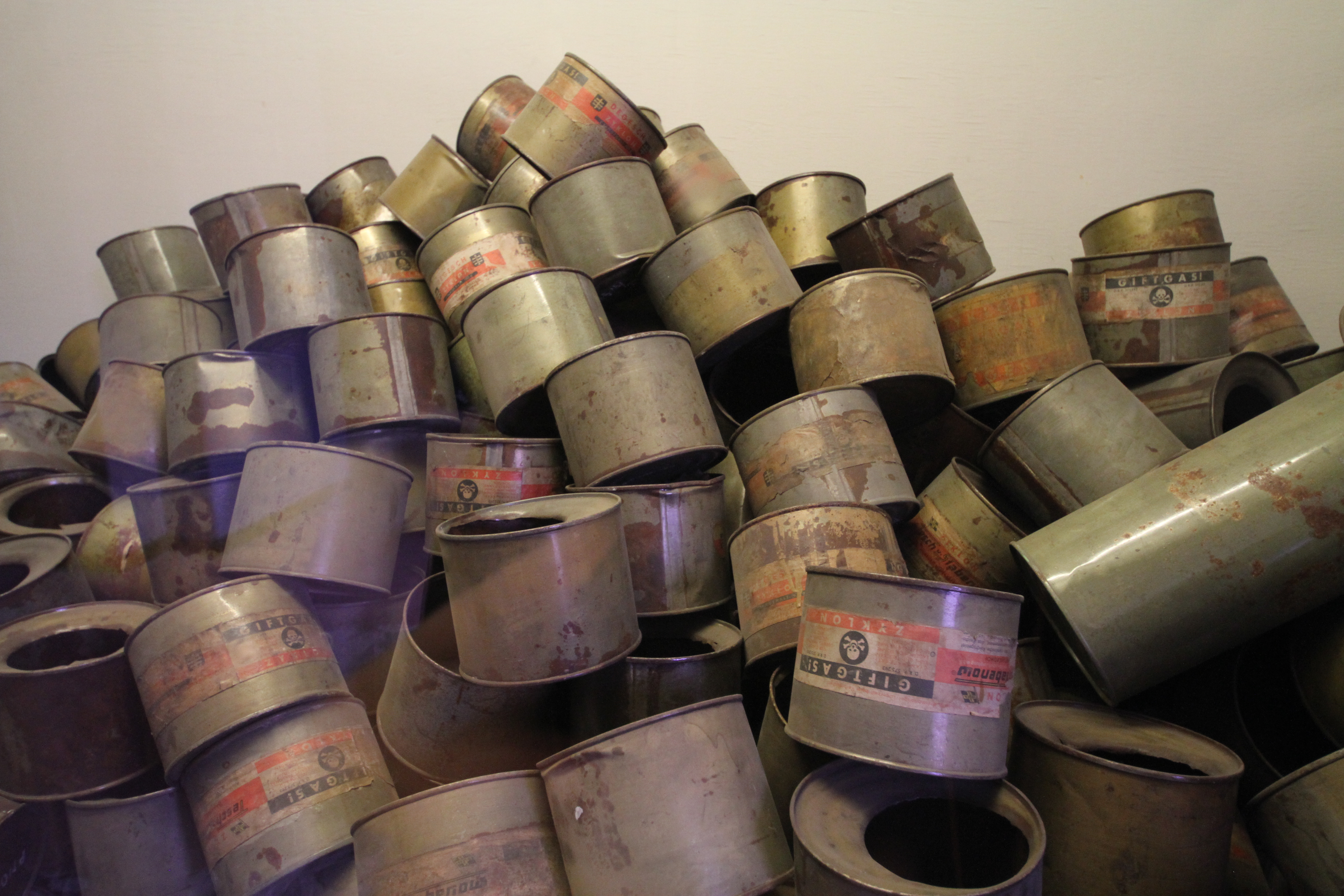 Zyklon B in Auschwitz museum